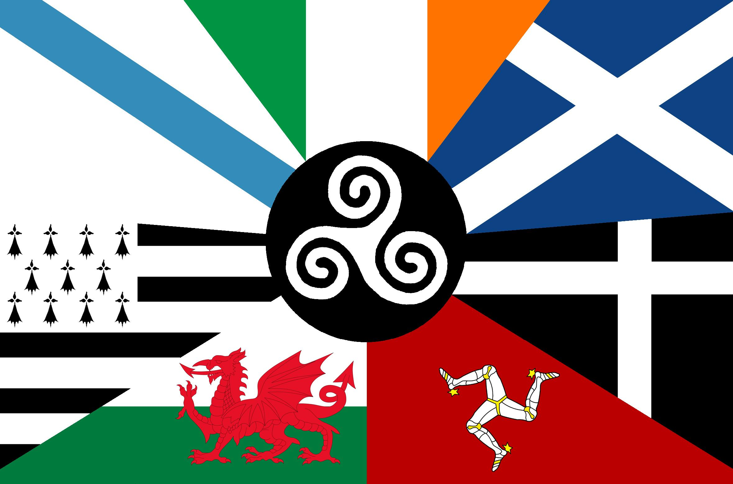 (Proposed) flag of the Celtic Nations: Galician at top left Irish at top middle Scottish at top right Cornish at bottom right Isle of Man at bottom middle right Wales at bottom middle left Brittany at bottom left